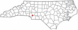 Category:North Carolina Dot Maps